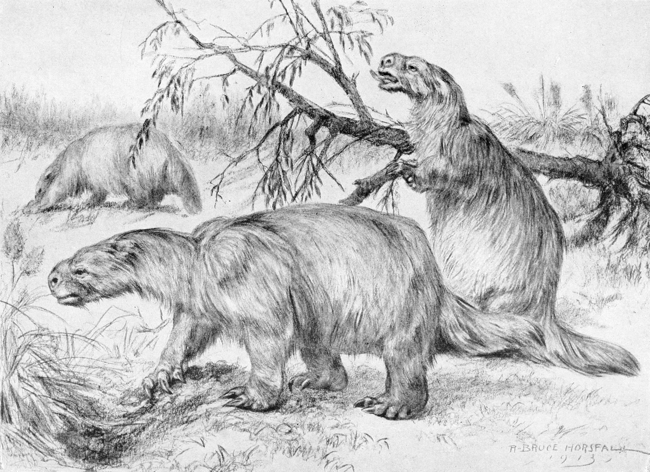 Glossotherium robustum (syn. Mylodon robustus) from A History of Land Mammals in the Western Hemisphere. New York: The Macmillan Company.